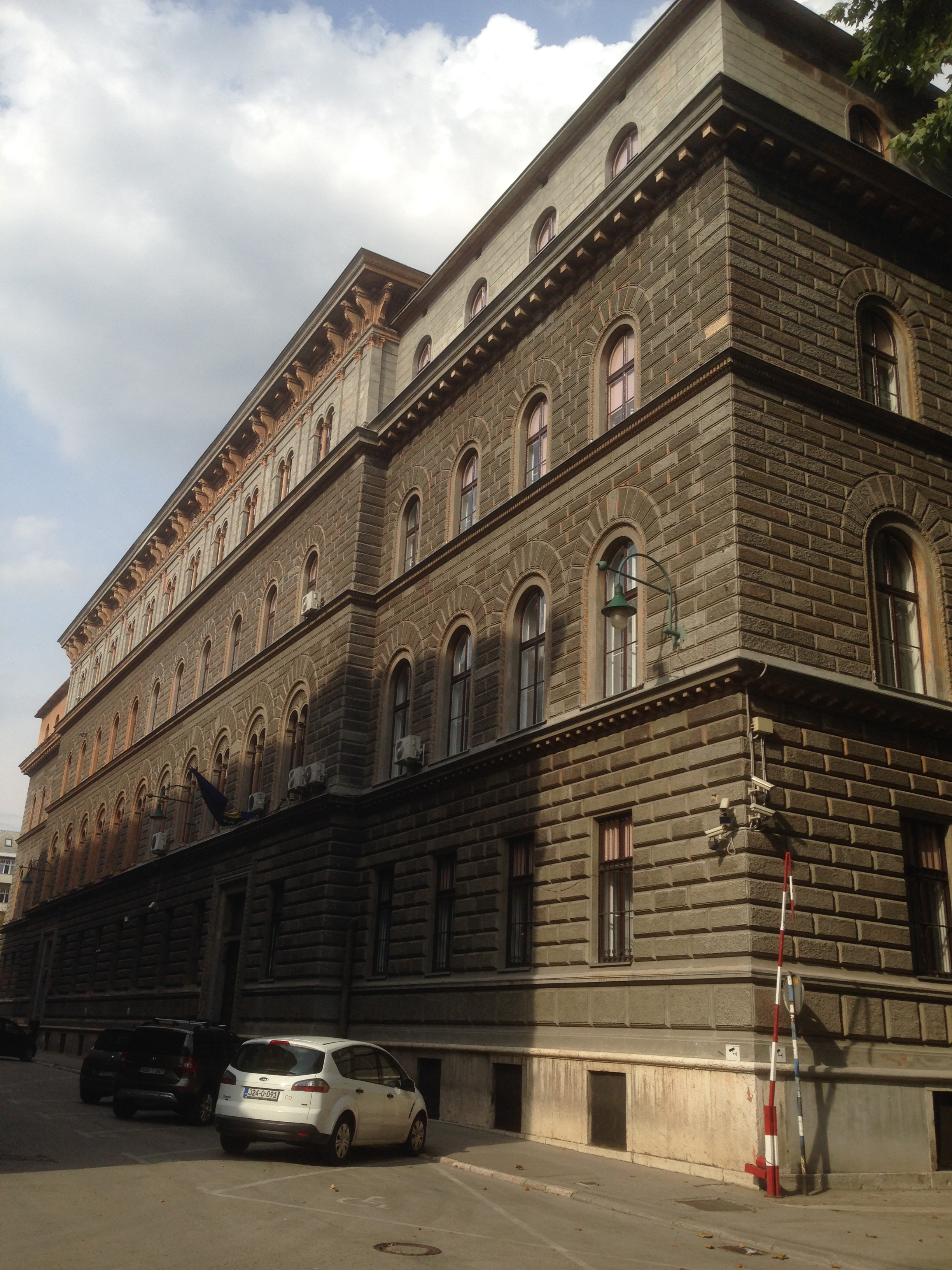 Sarajevo - Railway building